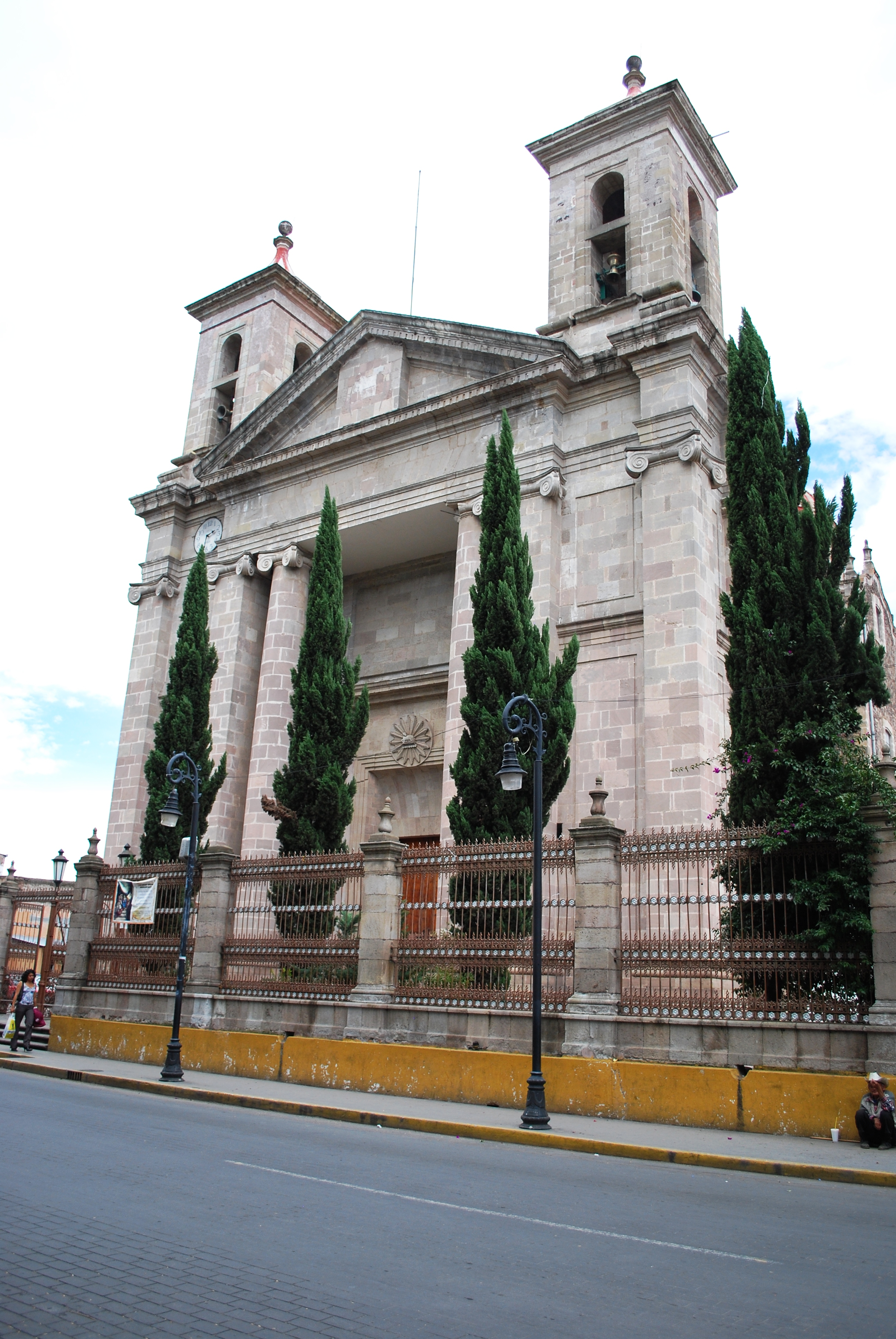 Cathedral of Tulancingo